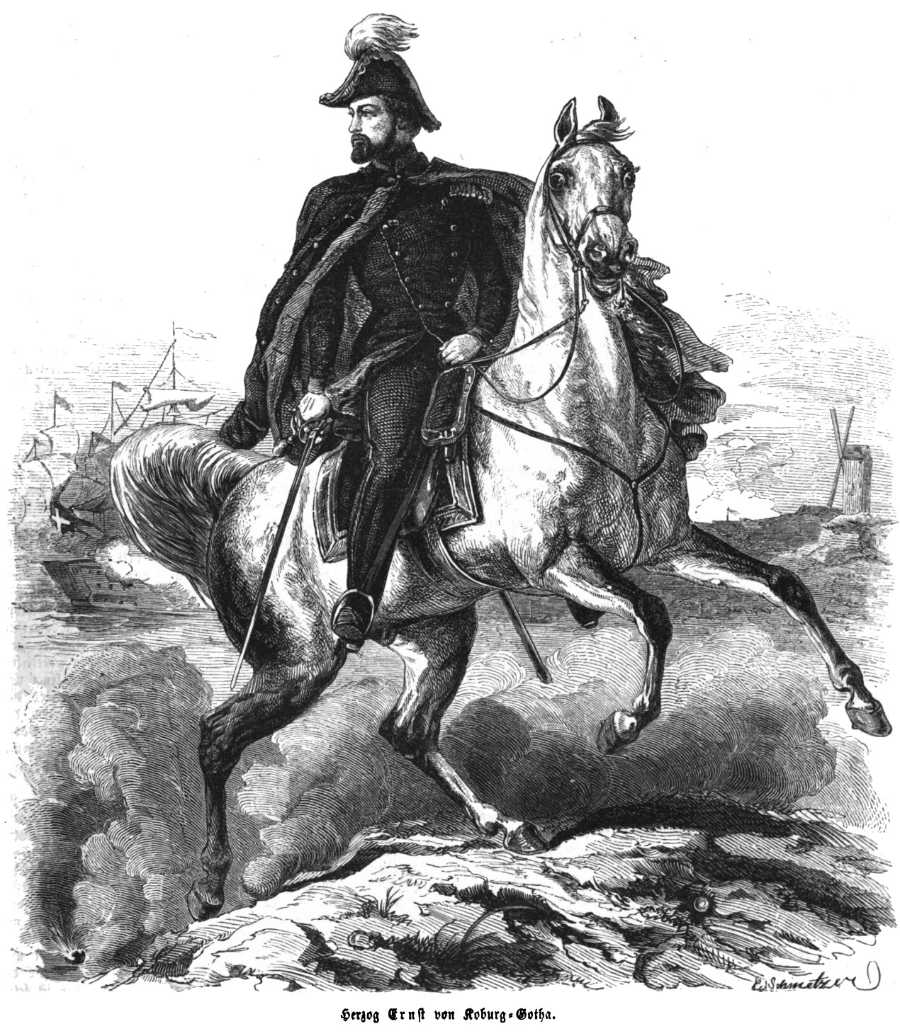 caption: "Herzog Ernst von Koburg-Gotha."